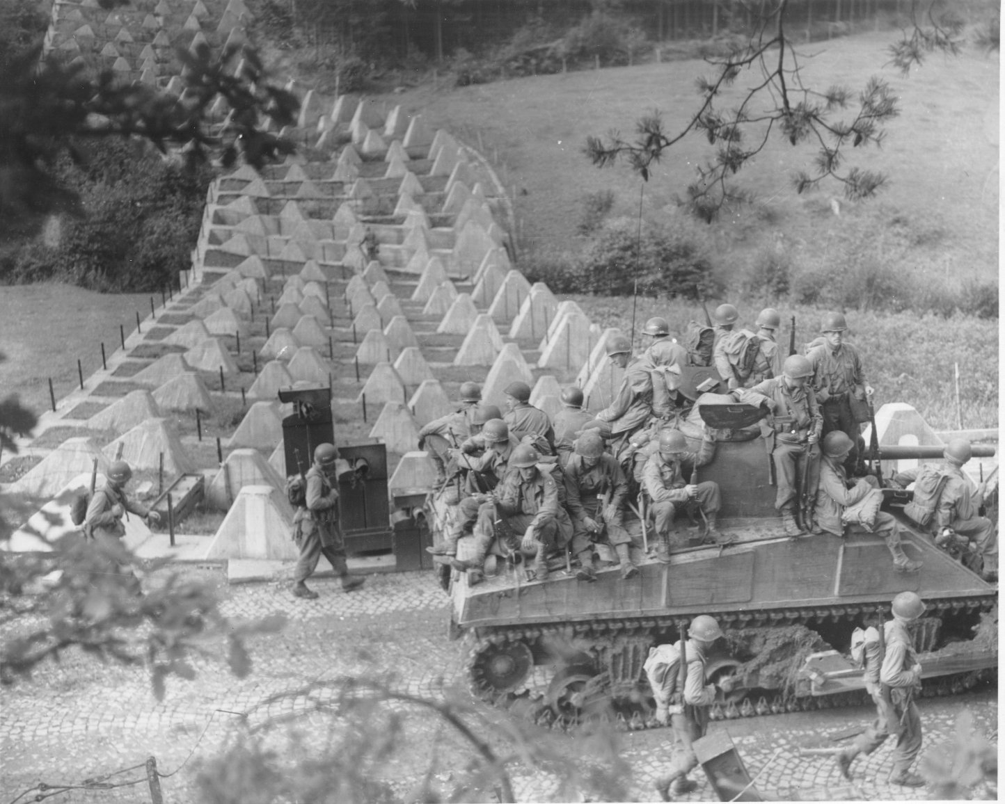 The 39th Infantry saw action during WWII as part of the 3rd Armored Division. Pictured here, they are crossing the Dragon's Teeth of the Siegfried Line